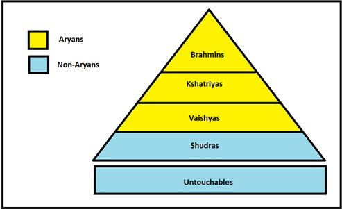 Caste system of Aryan society.